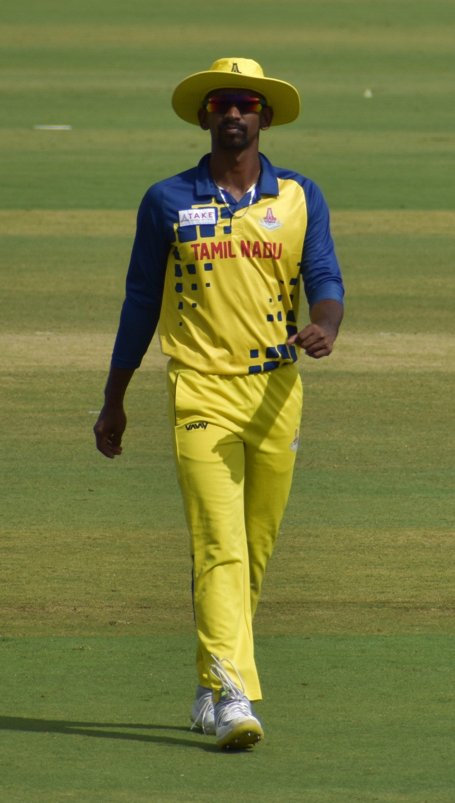 Indian cricketer Baba Aparajith during the 2019-20 Vijay Hazare Trophy in Alur, Bangalore.